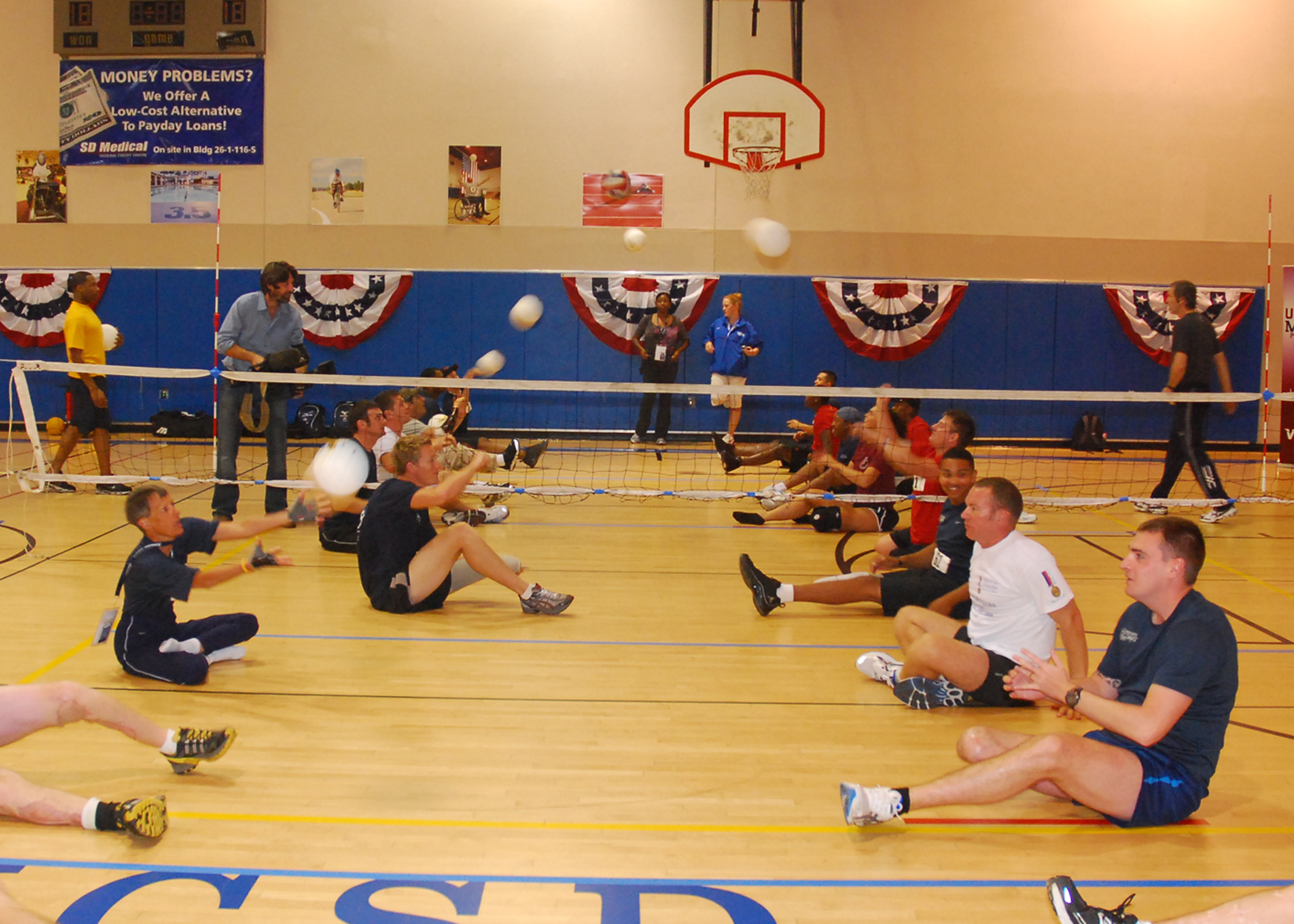 SAN DIEGO (Oct. 16, 2009) Naval Medical Center San Diego hosted the United States Olympic Committee Paralympic Military Sports camp. The camp is designed to introduce paralympic sports to service members and veterans with disabilities. Sports included archery, swimming, strength and conditioning, and volleyball. (U.S. Navy photo by Mass Communication Specialist 3rd Class Jake Berenguer/Released)